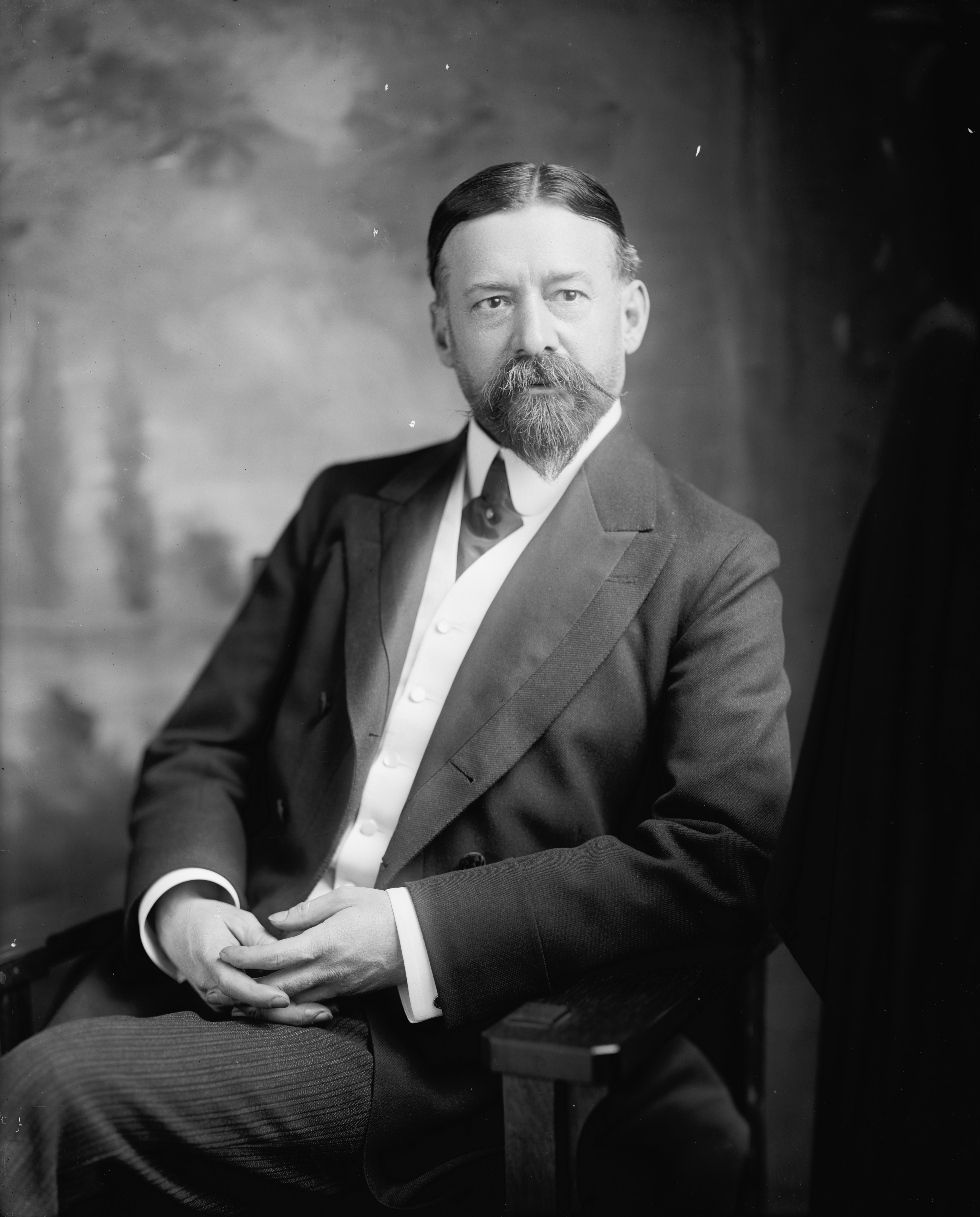 Canadian-born American journalist James Creelman (1859–1915)